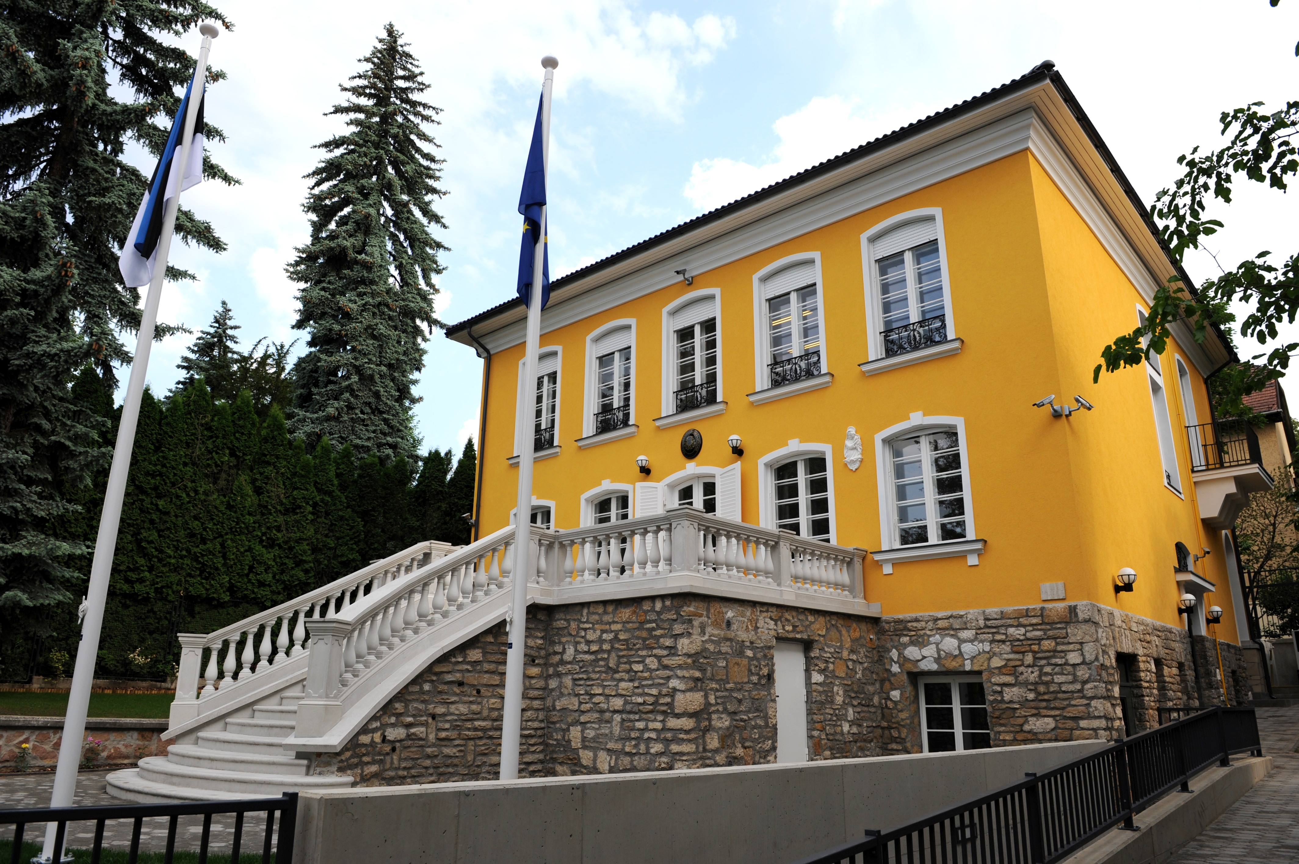 Estonia’s new embassy in Budapest